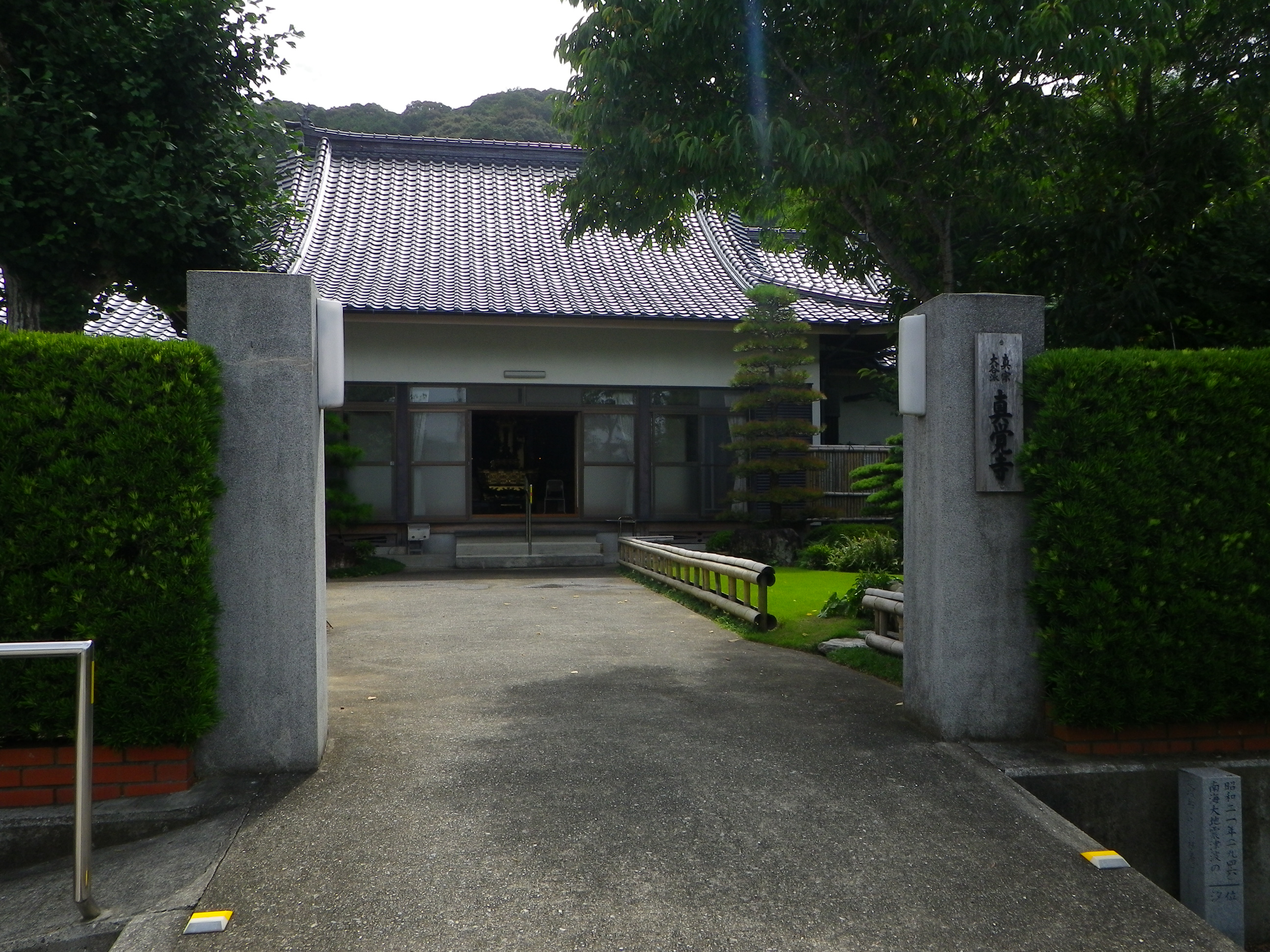 Tosa city Usa Shinkakuji temple (Ansei tsunami Shinkakuji diary)